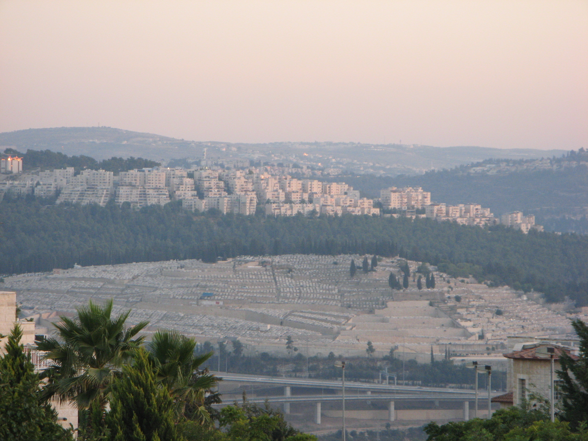 View of Har Nof and Har Hamenuchot from Ramot